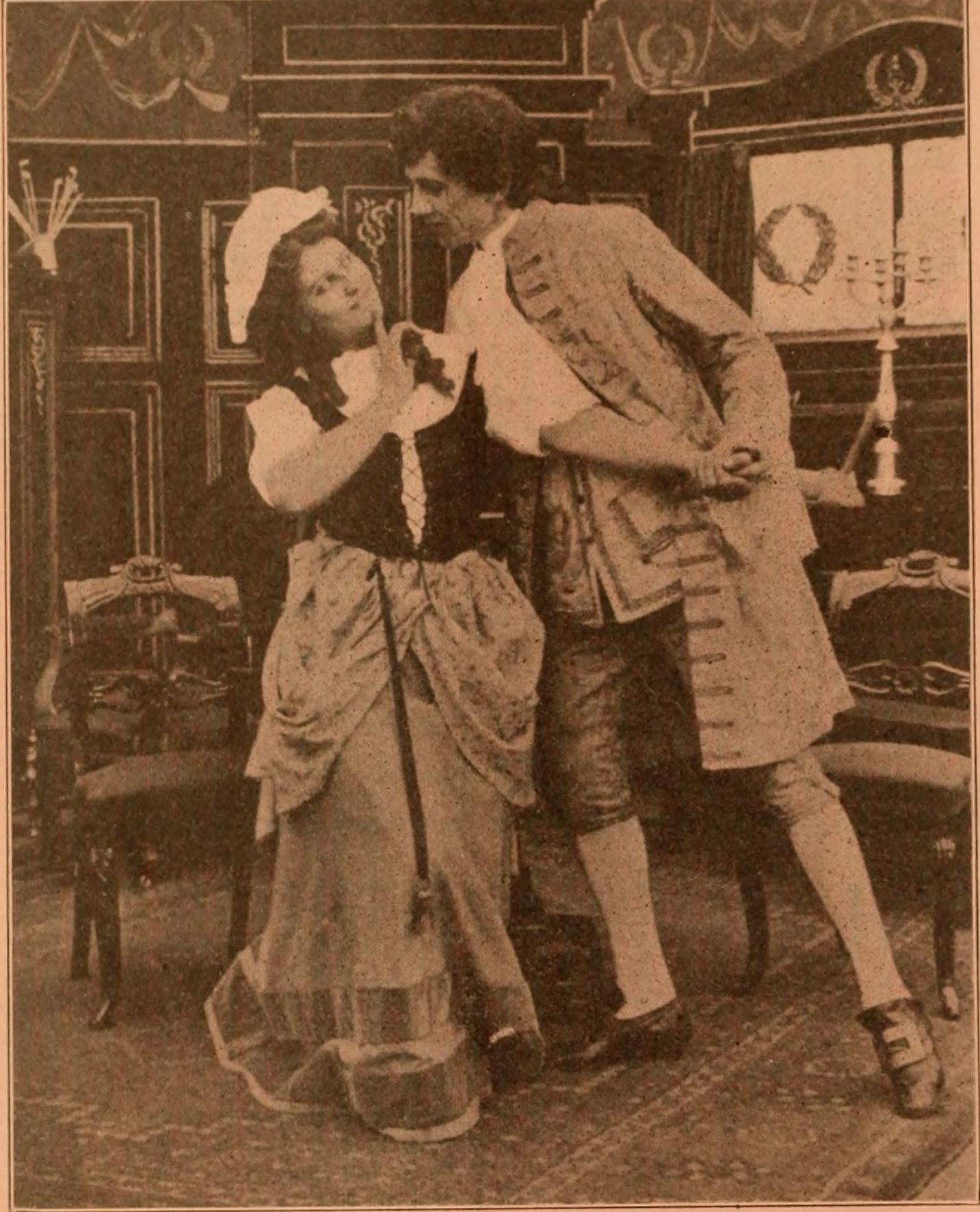 A surviving film still from 1910 release of She Stoops to Conquer by the Thanhouser Company.